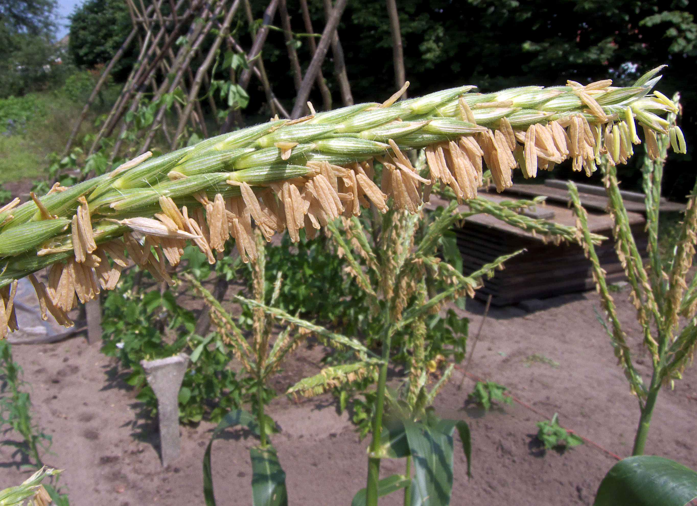 Zea mays, sweet corn stamens